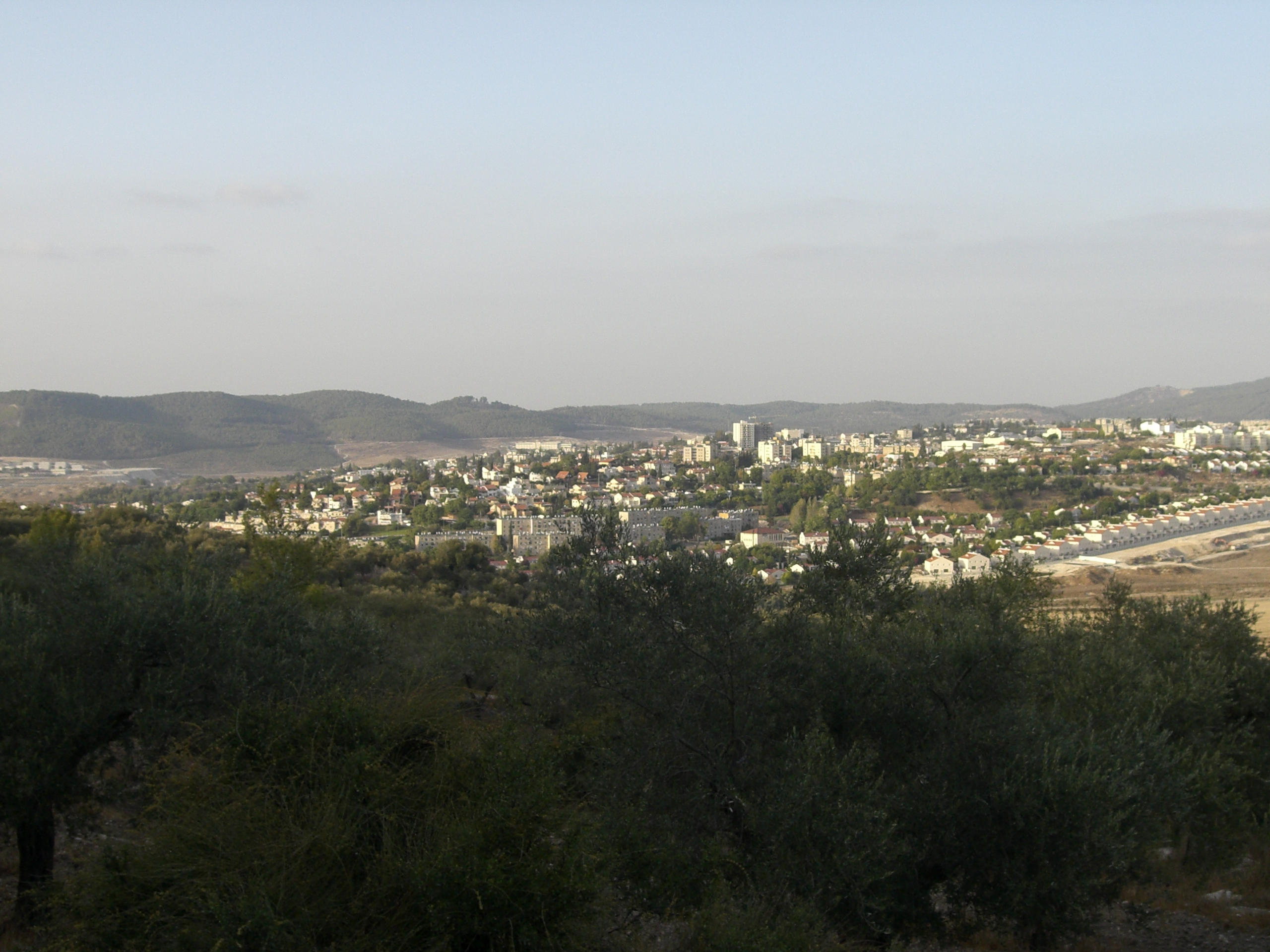 A view of Bet Shemesh from Bet Gemal (south) מבט על בית שמש מדרום, ממנזר בית ג'מאל